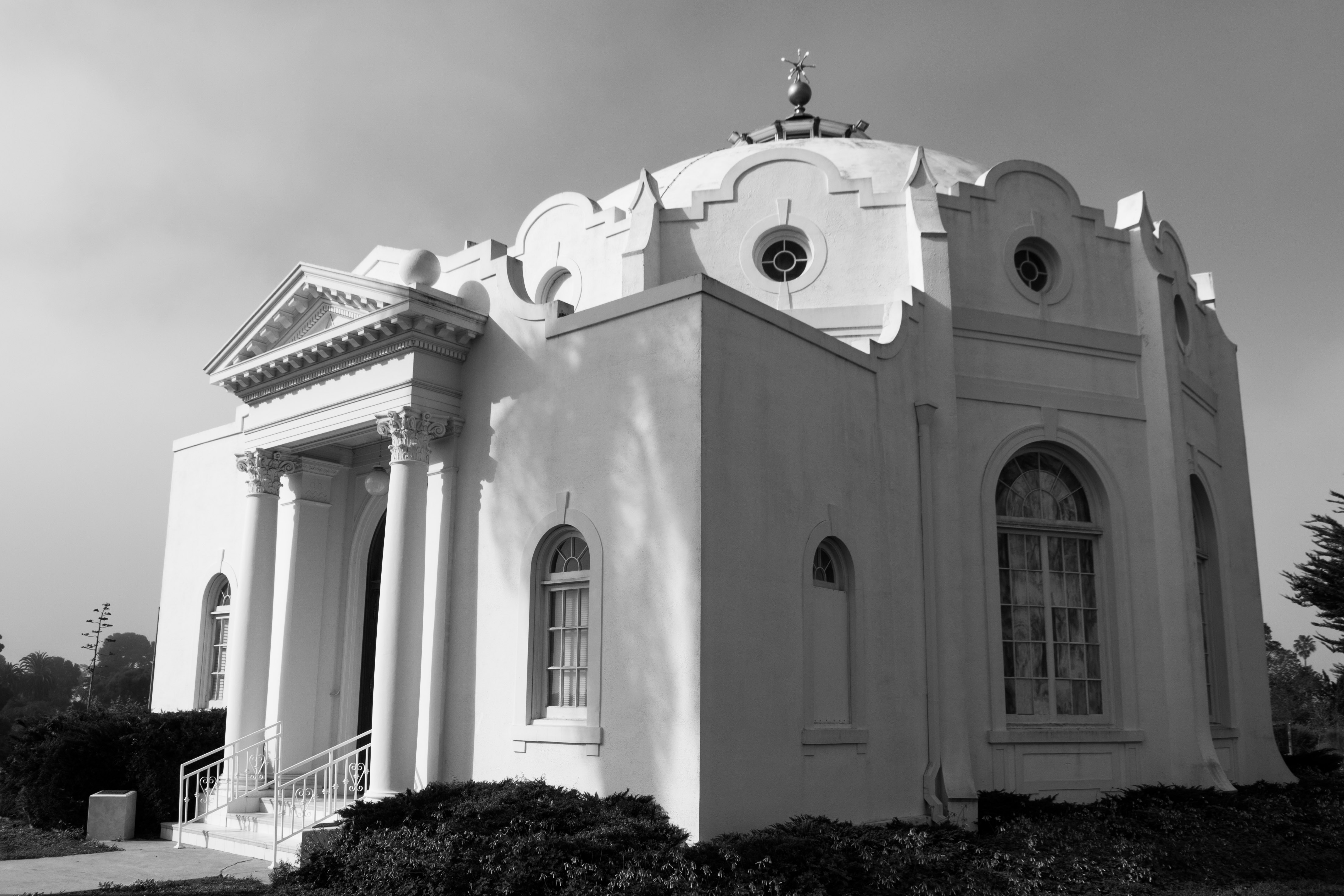 Mt. Ecclesia